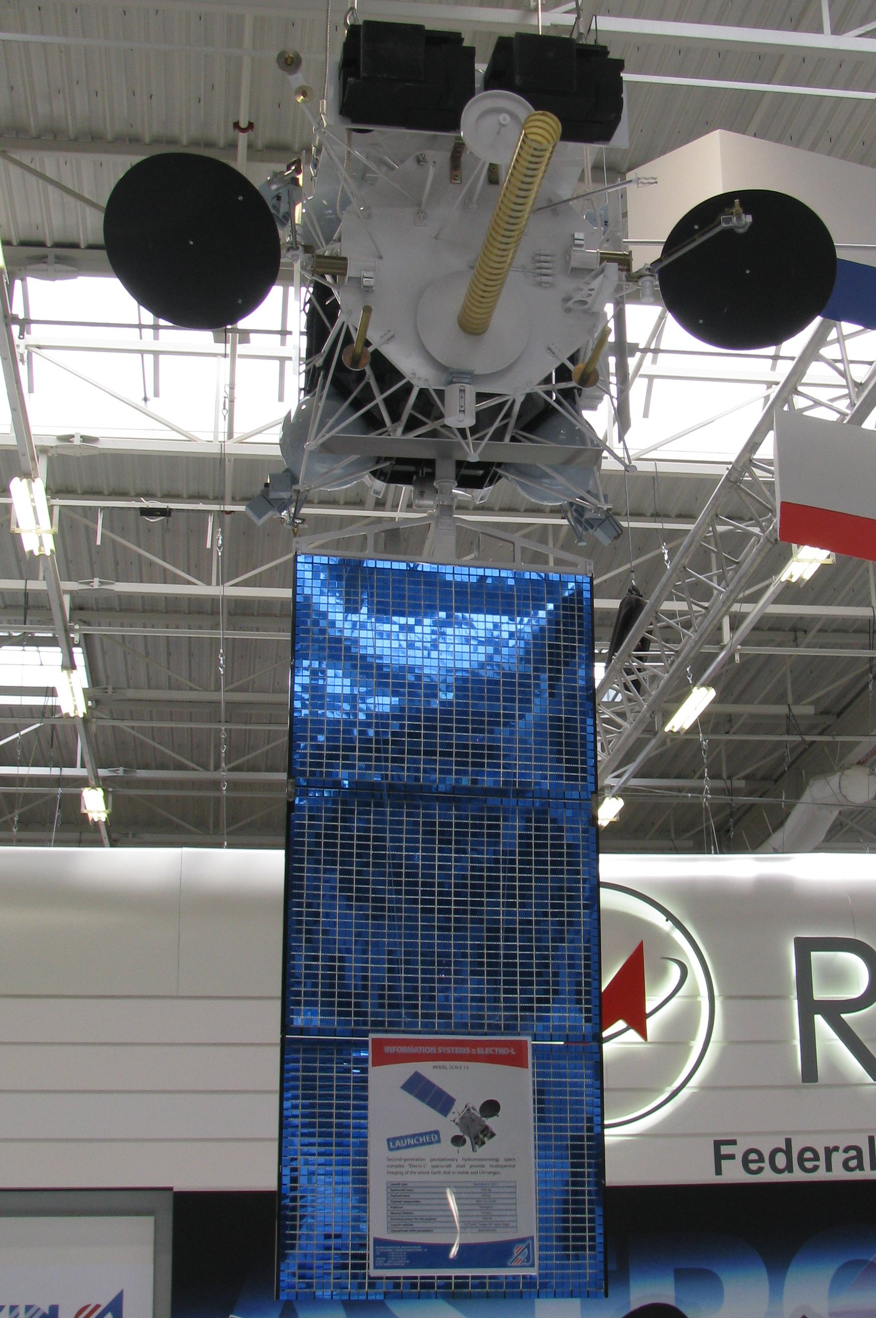 Model of Electro-L Russian meteorological satellite at Paris Air Show 2011